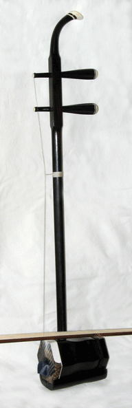 Erhu